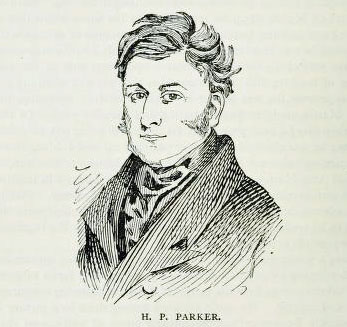 This unaccredited portrait was first published in the Newcastle Weekly Chronicle in 1891